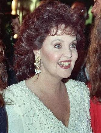 Actress Pauline Collins – at the 62nd Academy Awards.